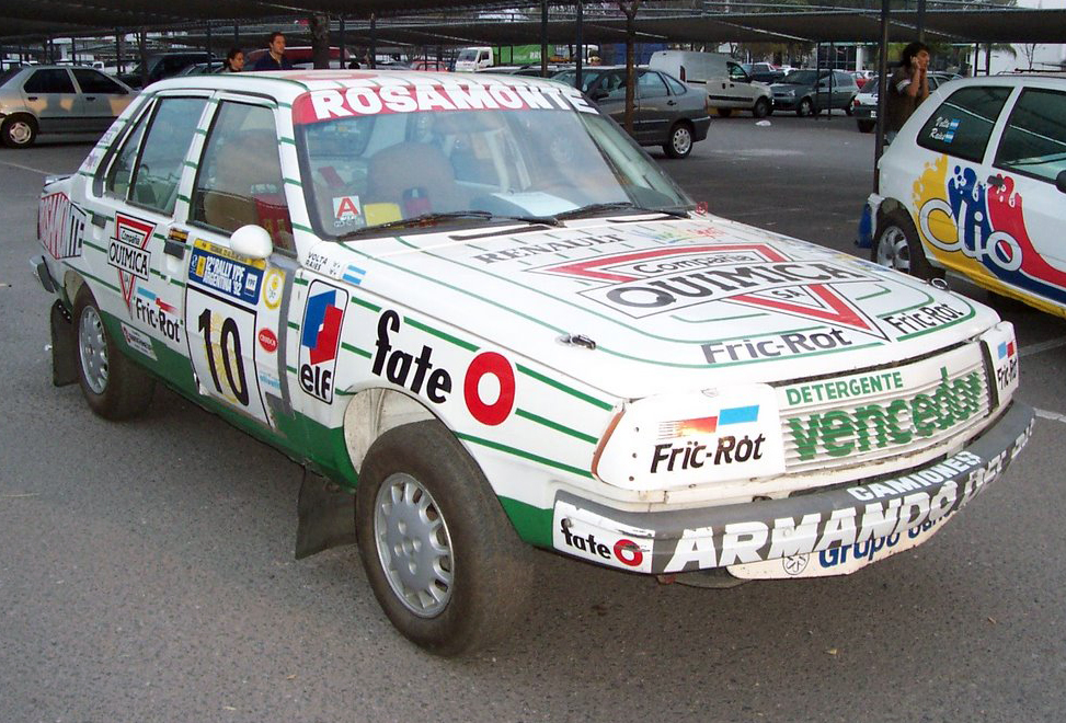 This Renault 18 GTX (A7 category) finished seventh overall in the 1992 Rally YPF Argentina (the eighth leg of the world championship), with Gabriel Raies and Jose Maria Volta driving.